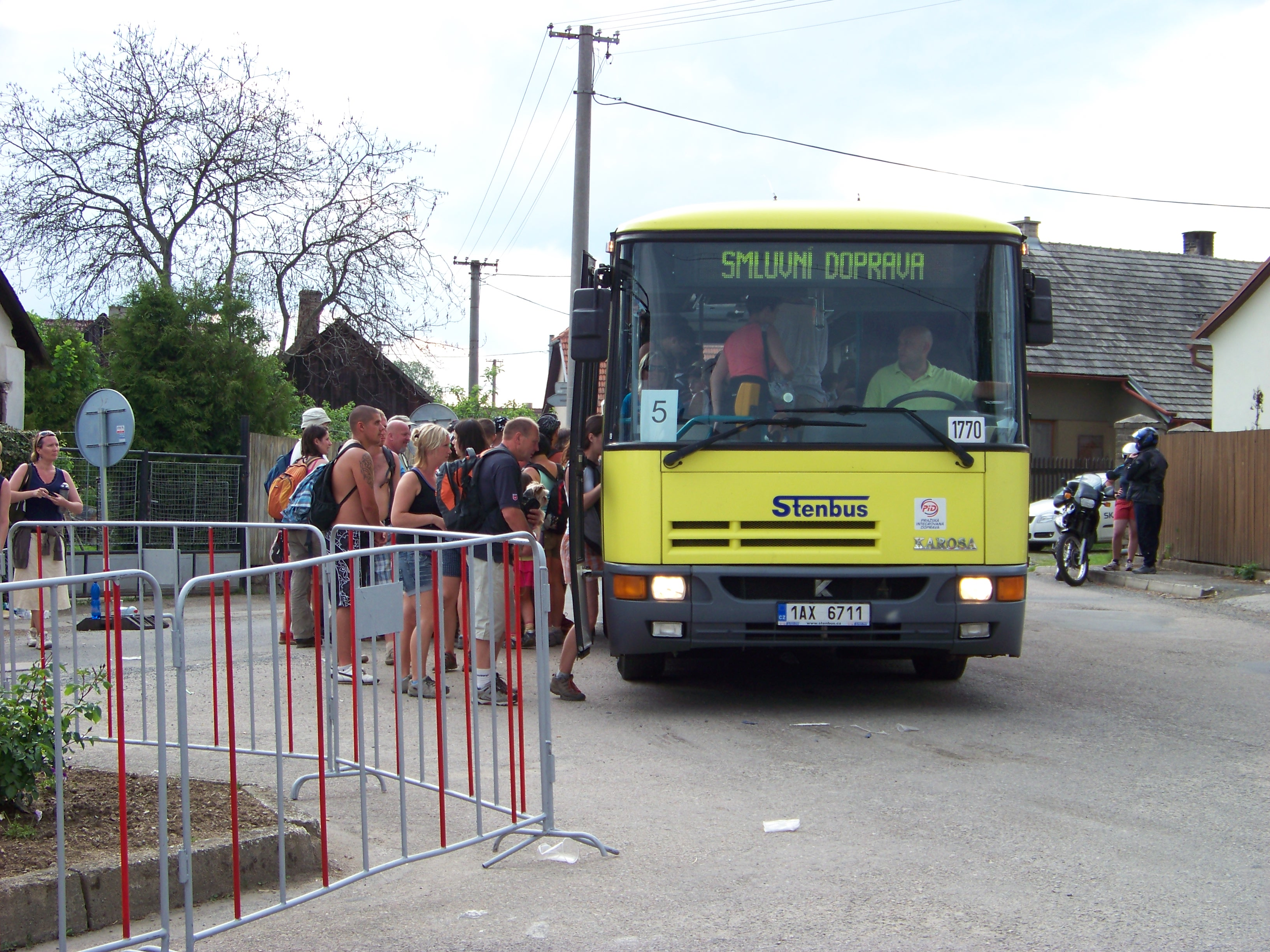 Sedlec-Prčice-Prčice, Příbram District, Central Bohemian Region, the Czech Republic. Divišovická street, a special bus.